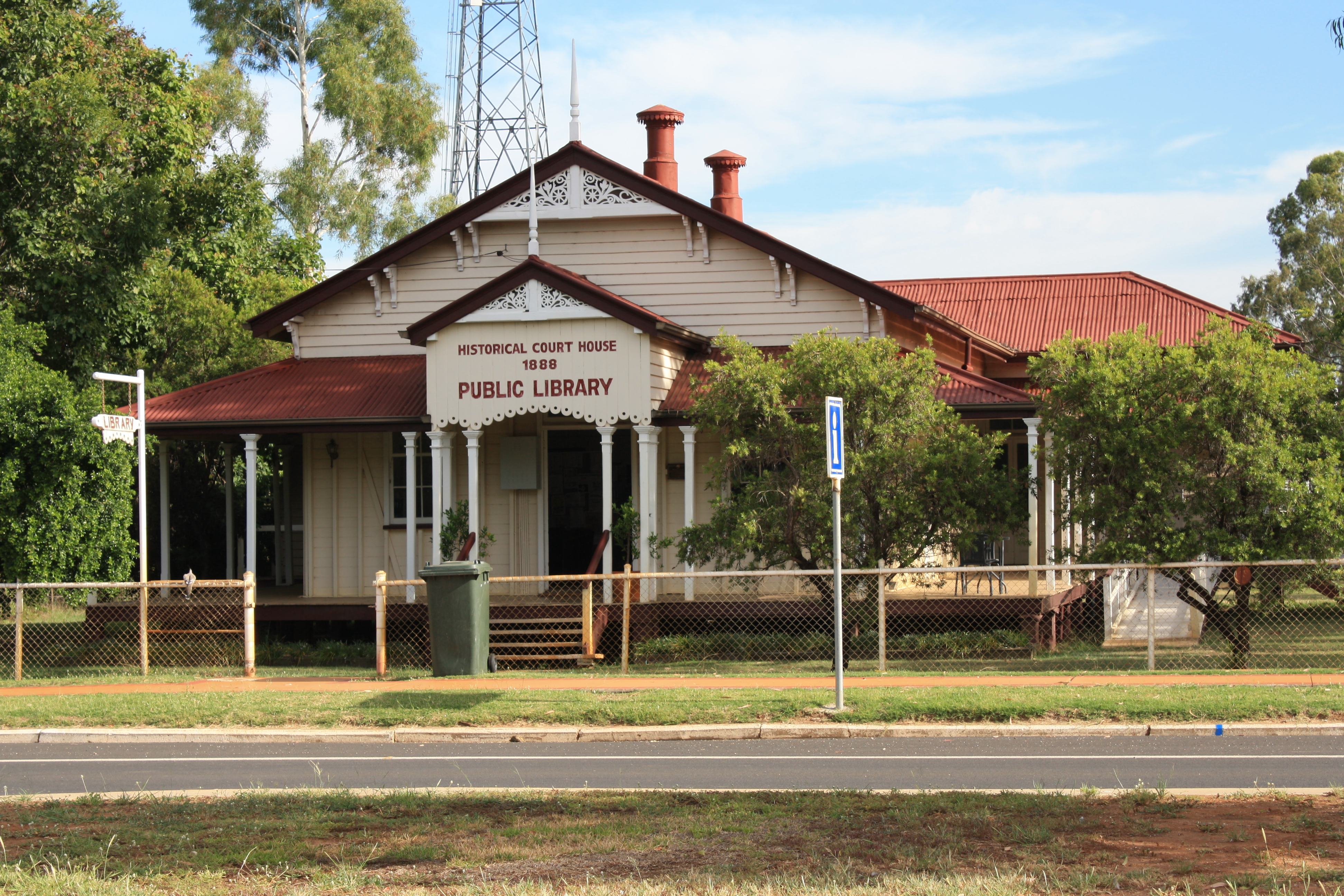 Public Library building in the town of Tambo. Previously Tambo Court House. Built 1888.